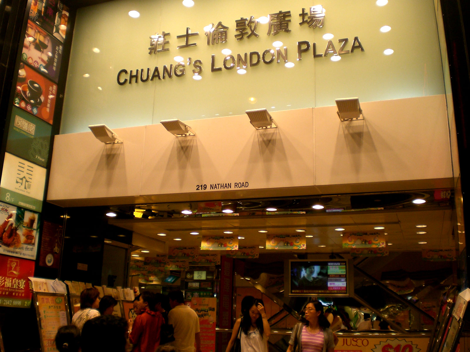 九龍 旺角 彌敦道 莊士倫敦廣場